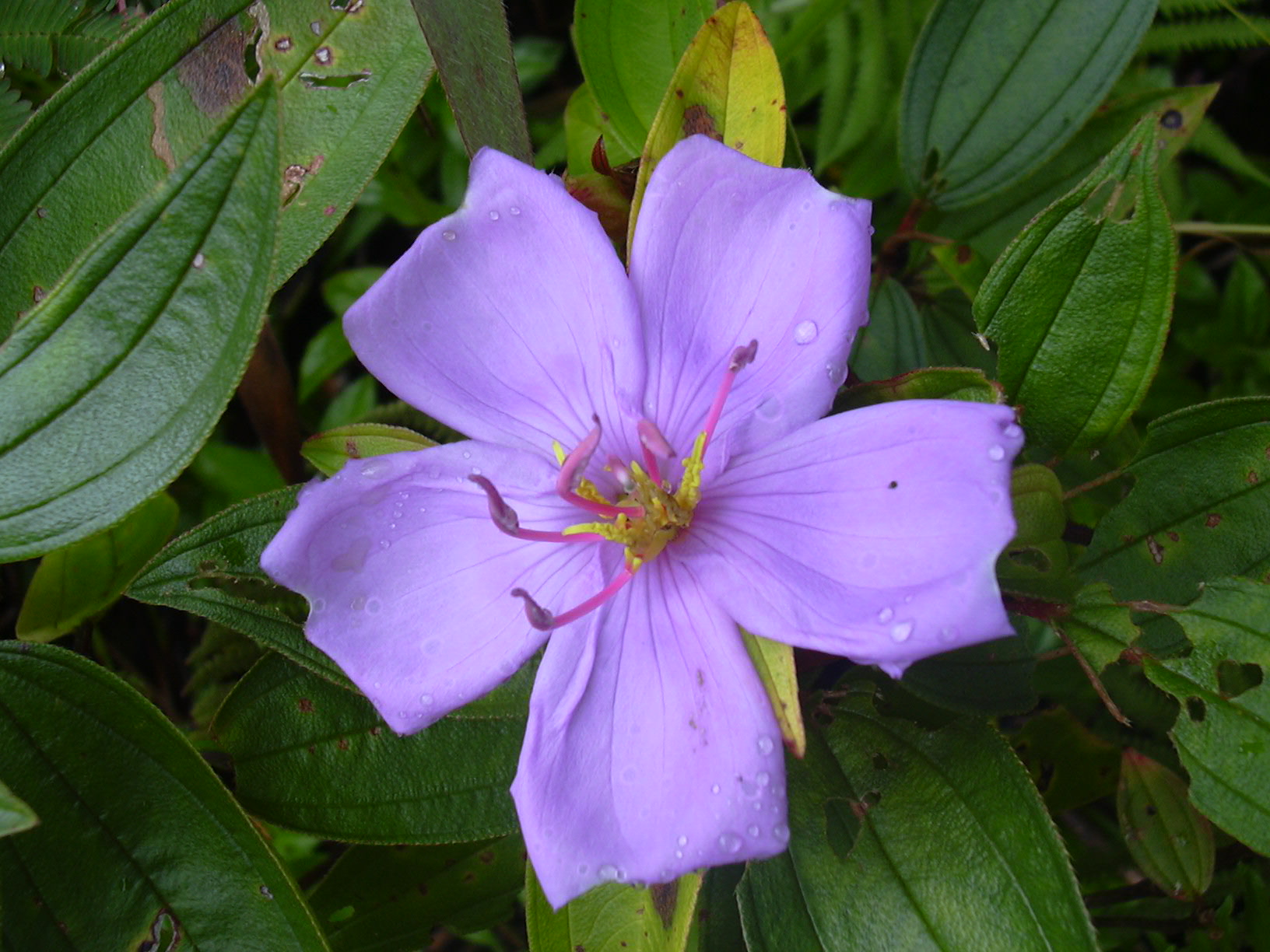 Melastoma septemnervium (flower). Location: Hawaii, Hilo